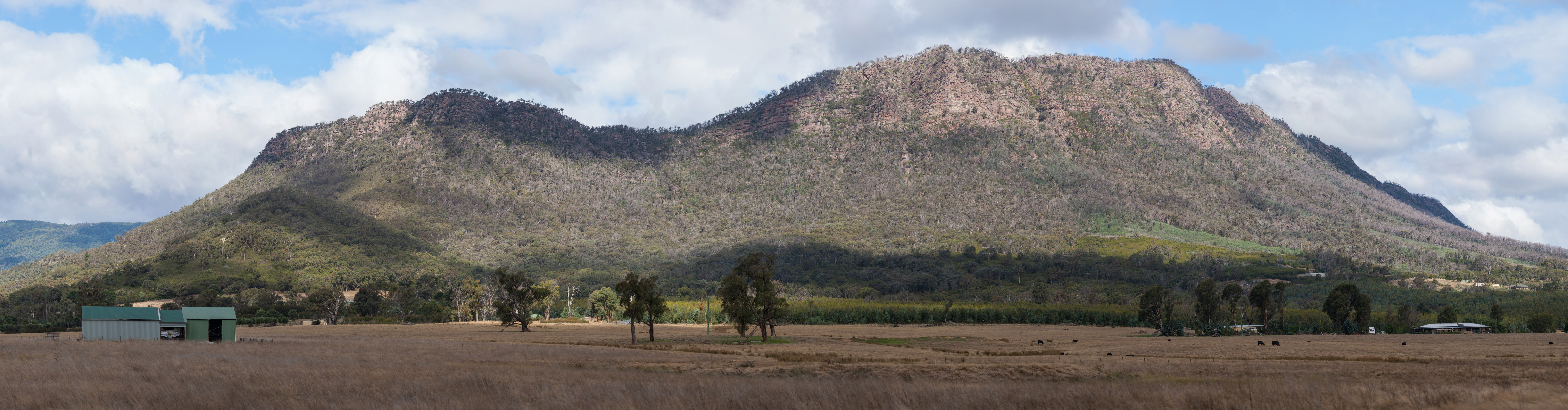 The northern section of the Cathedral Range in Victoria, Australia as viewed from the Maroondah Highway.